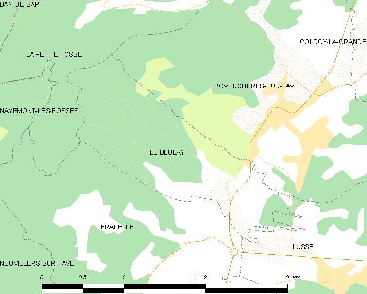 Map of French municipality Le Beulay